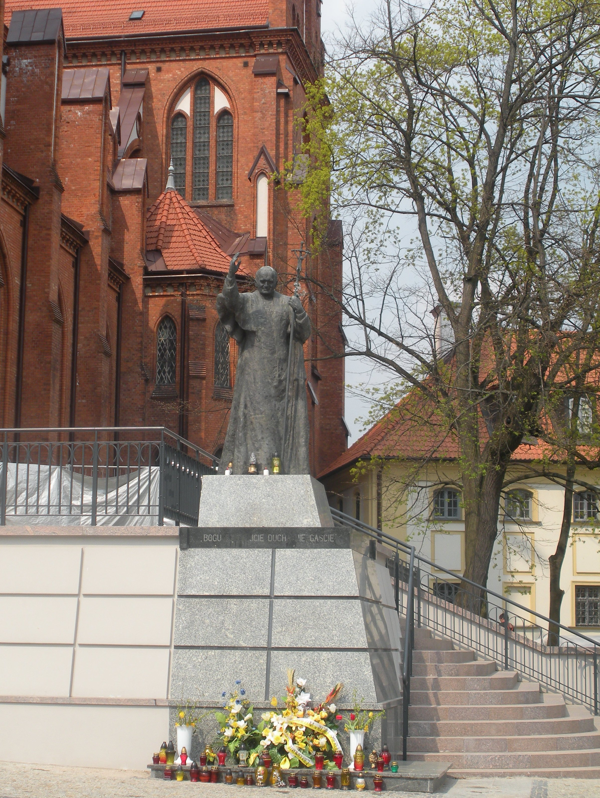 John Paul II's statue at the cathedral in Białystok, Poland